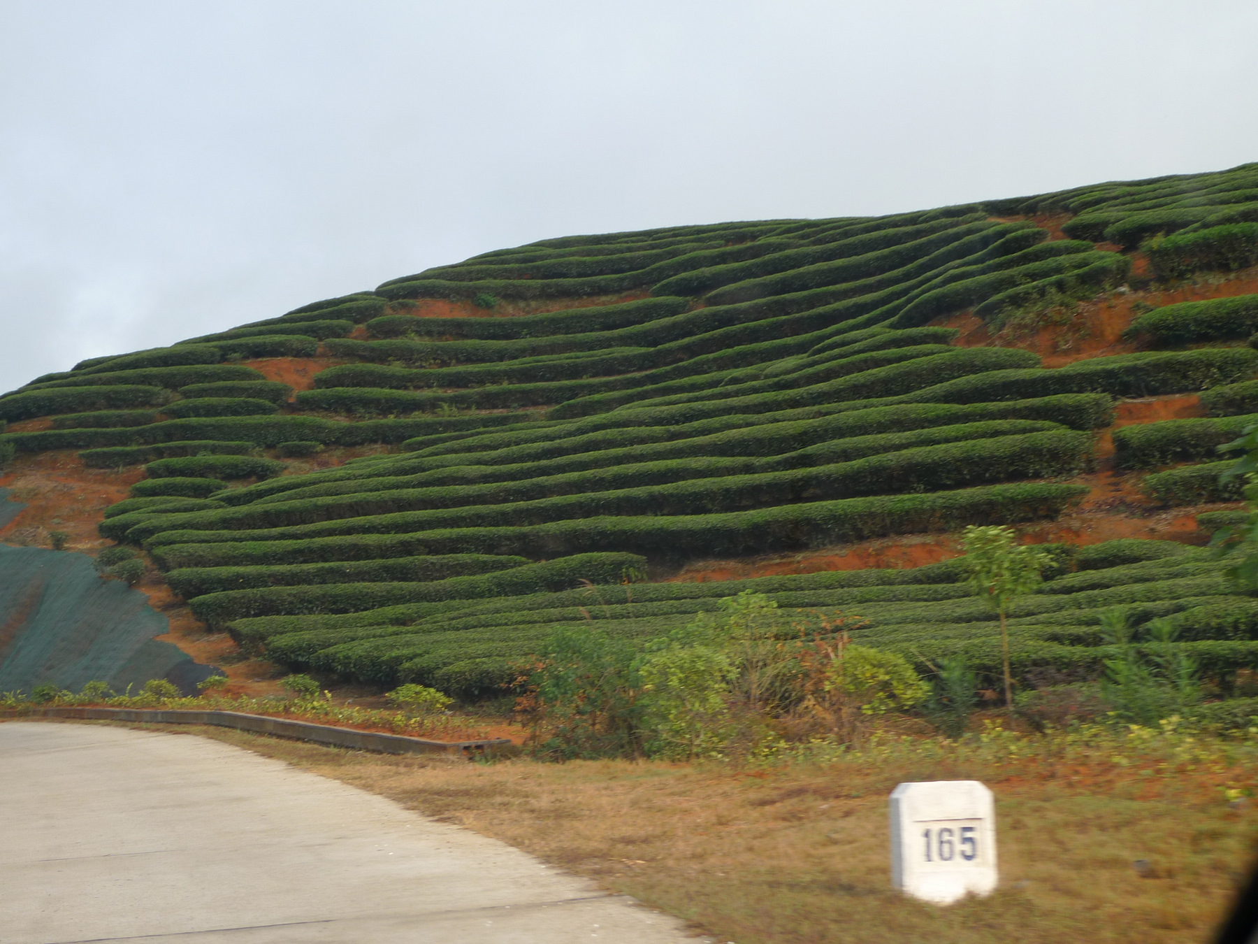 武夷山茶园